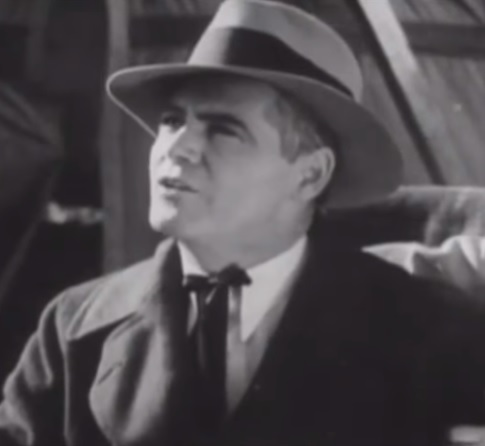 Edward Hearn in the serial The Shadow of the Eagle, chapter one The Carnival Mystery (cropped screenshot)